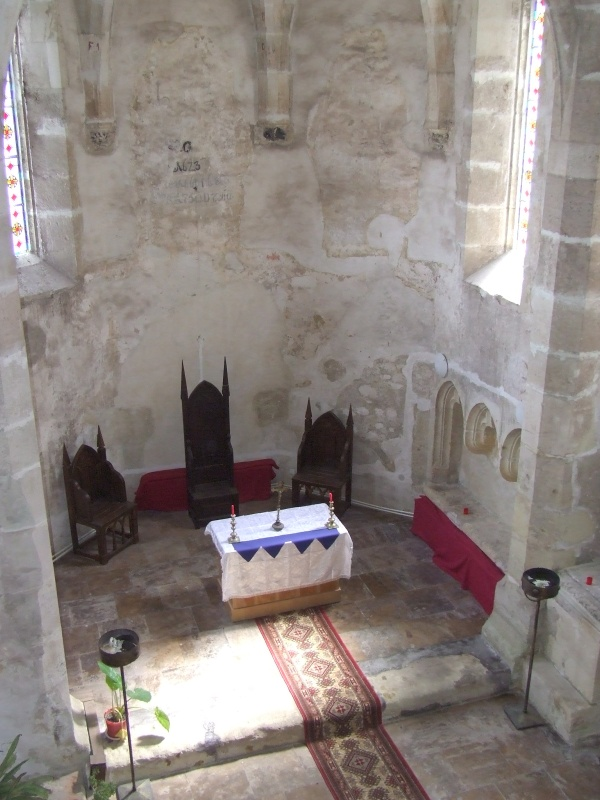 The Castle of Hunedoara (also known as Corvins' Castle), Hunedoara County, Romania